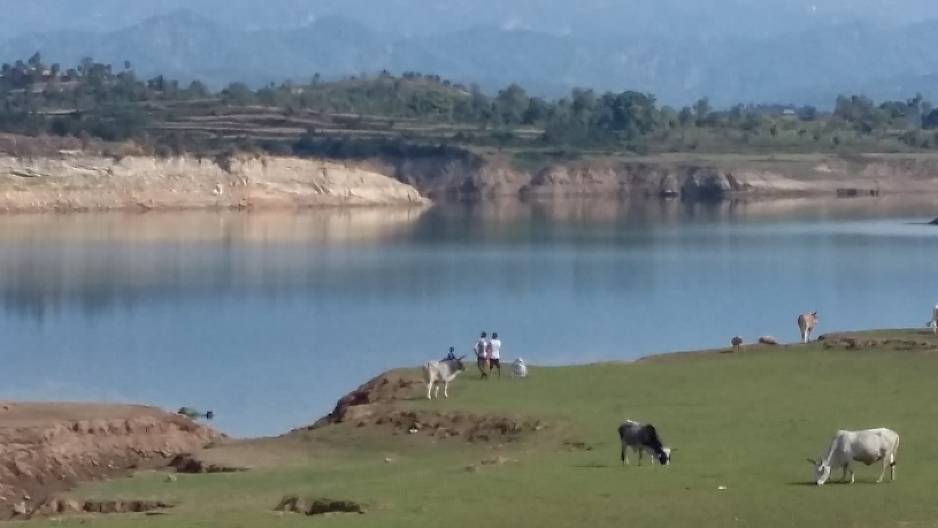 bank of Thein Dam lake